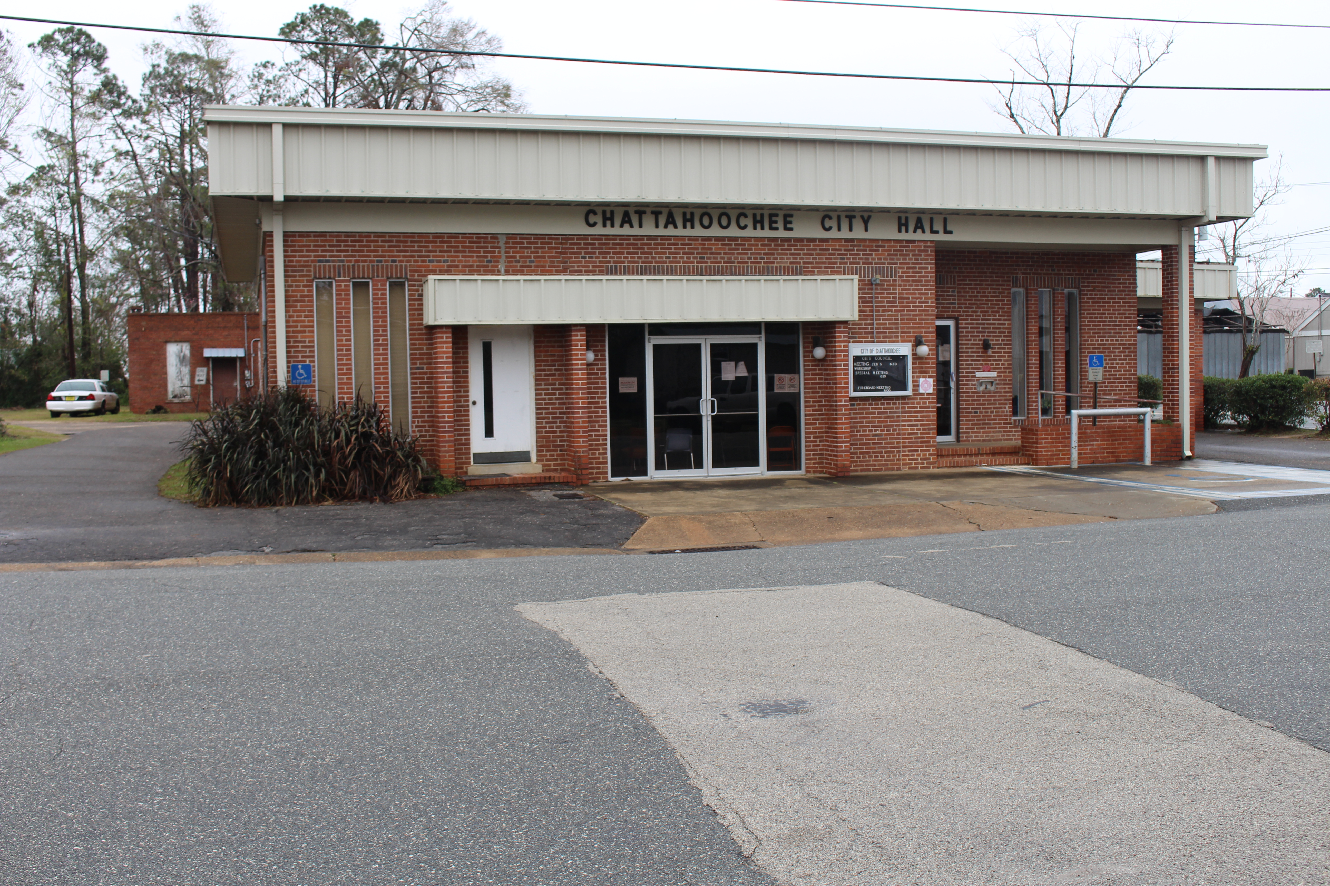 Chattahoochee City Hall, 22 Jefferson St., Chattahoochee, Gadsden County, Florida